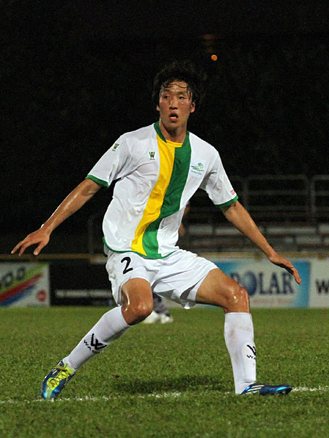 Korean footballer Cho Sung Hwan playing for Woodlands Wellington in a friendly match against Balestier Khalsa on 29 January 2013.